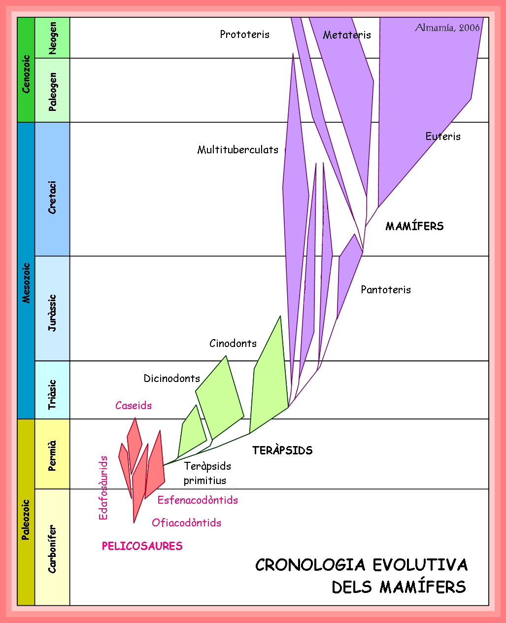 Simple diagram of mammalian evolution through geological time, tags in Catalan